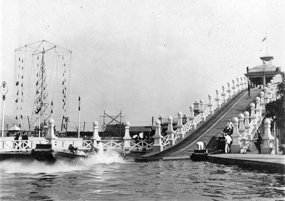 "Shoot the Chutes" waterslide at Wonderland Amusement Park, Indianapolis, Indiana.